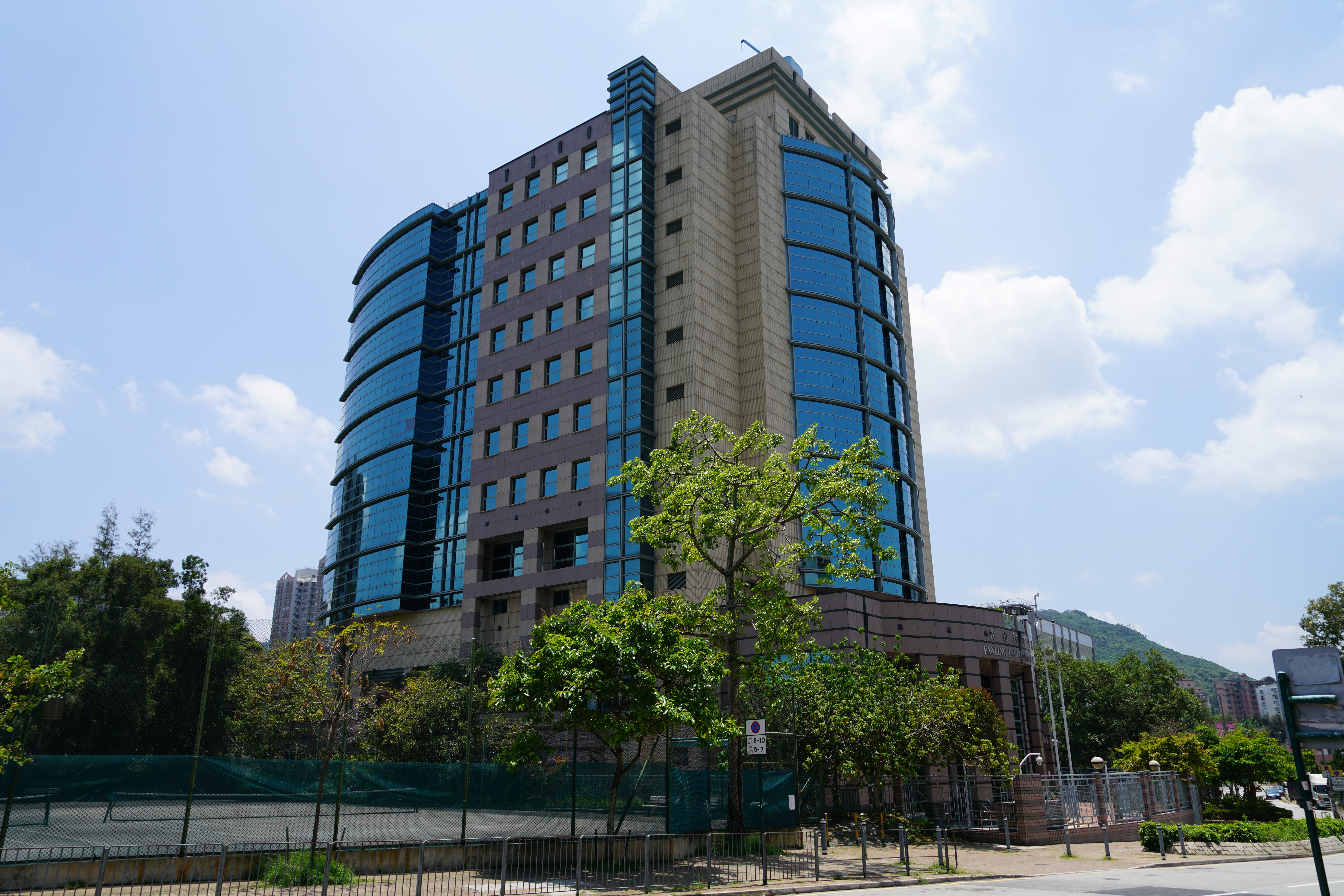 Fanling Magistrates' Courts, Hong Kong.